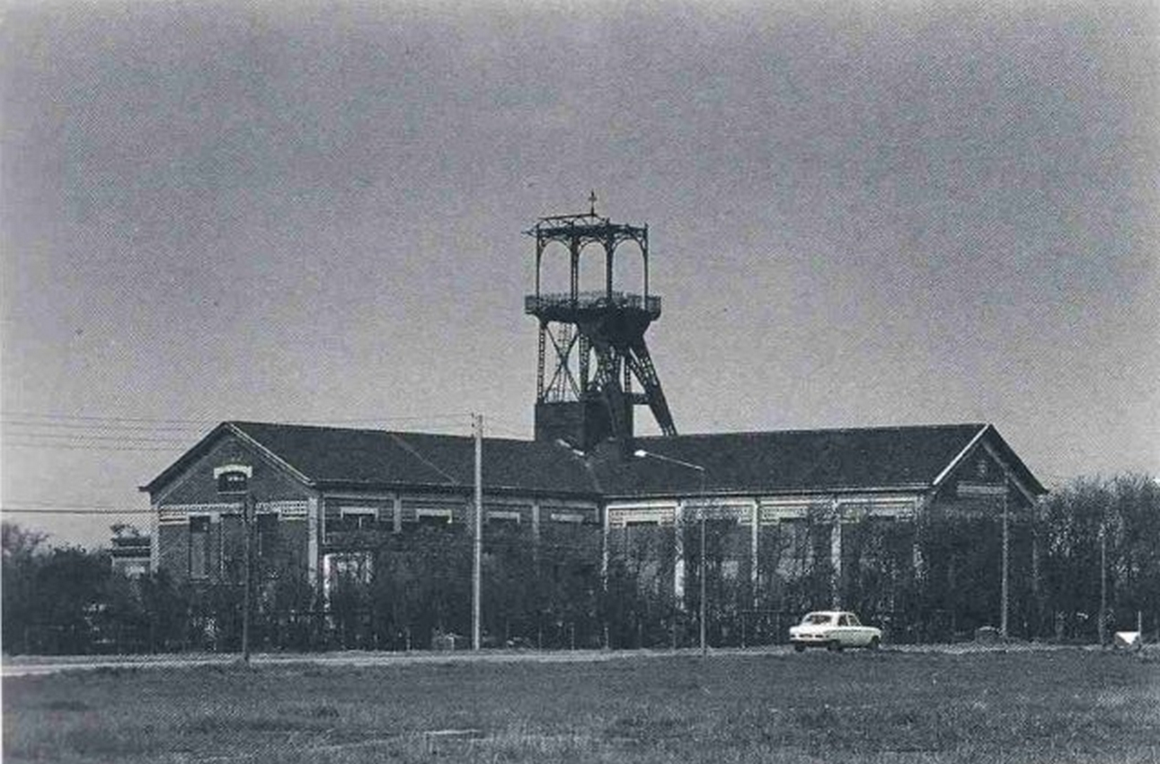 Coalpit n° 14 bis, Compagnie des mines de Lens, Loos-en-Gohelle, Pas-de-Calais, France.